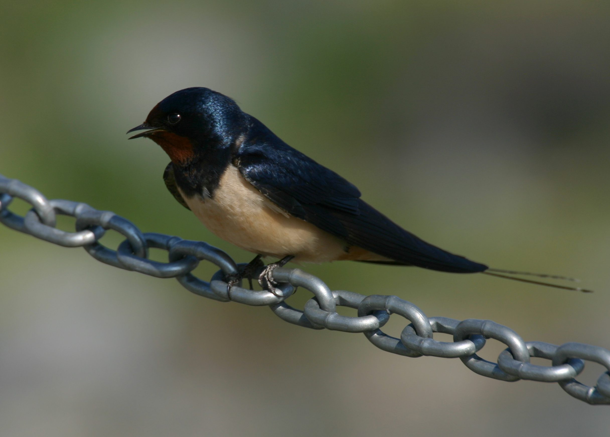 Barn swallow (Hirundo rustica), Mekszikópuszta, Hungary